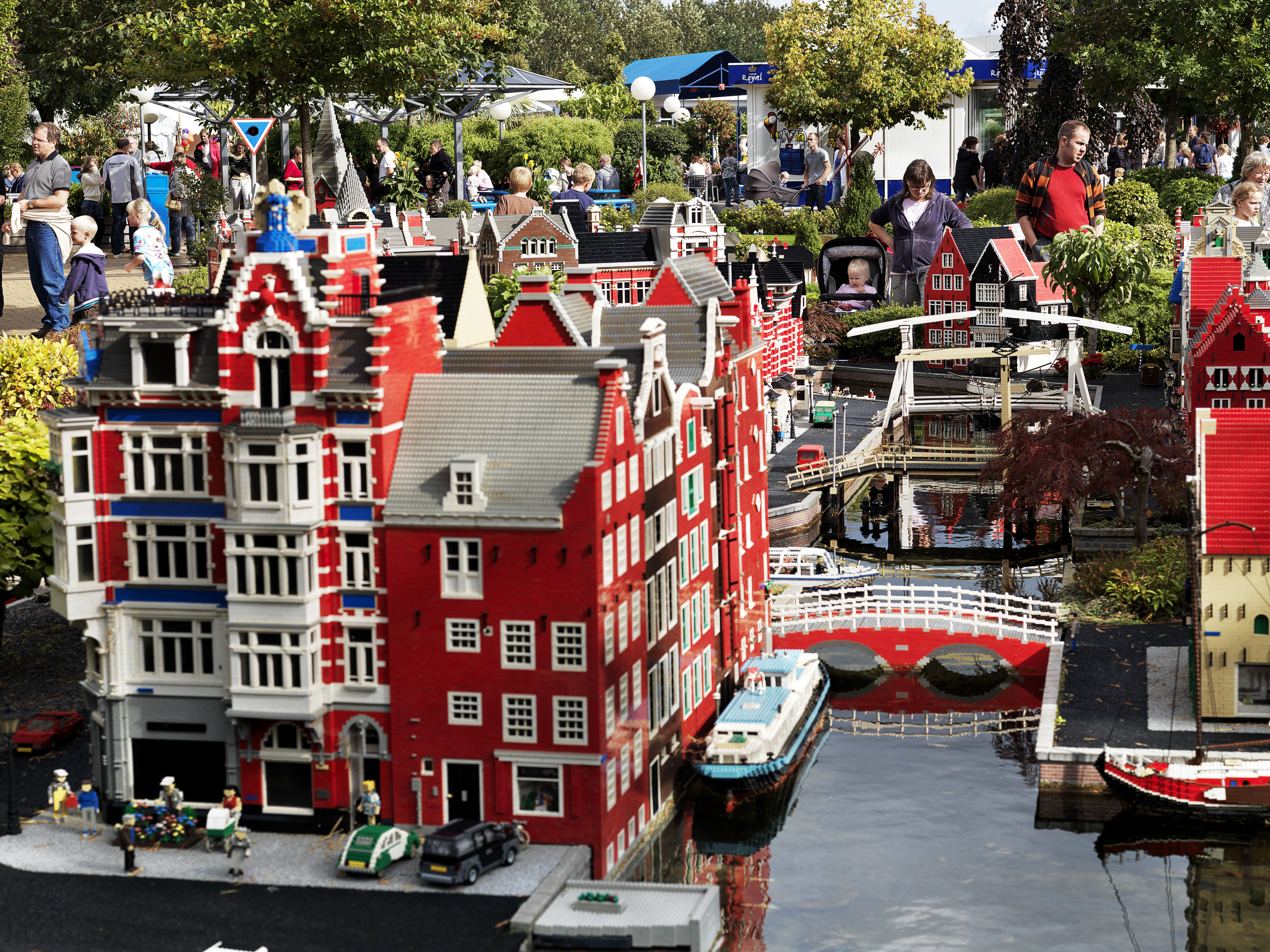 Model of Amsterdam in the area Miniland in the amusement park Legoland Billund Resort in Denmark.